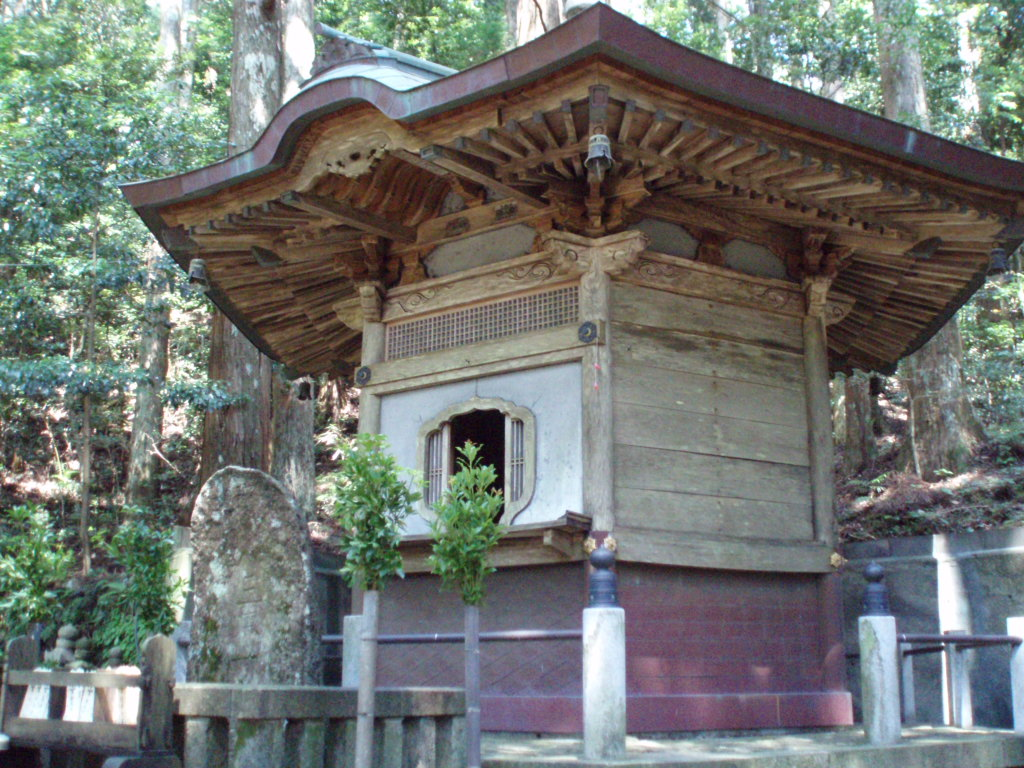 Charnel_house_of_AMIDADERA-temple_2_(Nachi-Katsuura,_Wakayama)